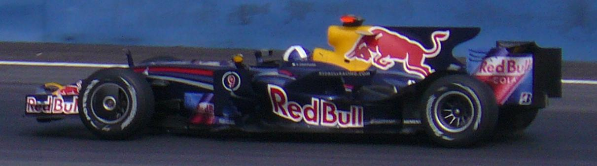 David Coulthard driving for Red Bull Racing at the 2008 European Grand Prix.